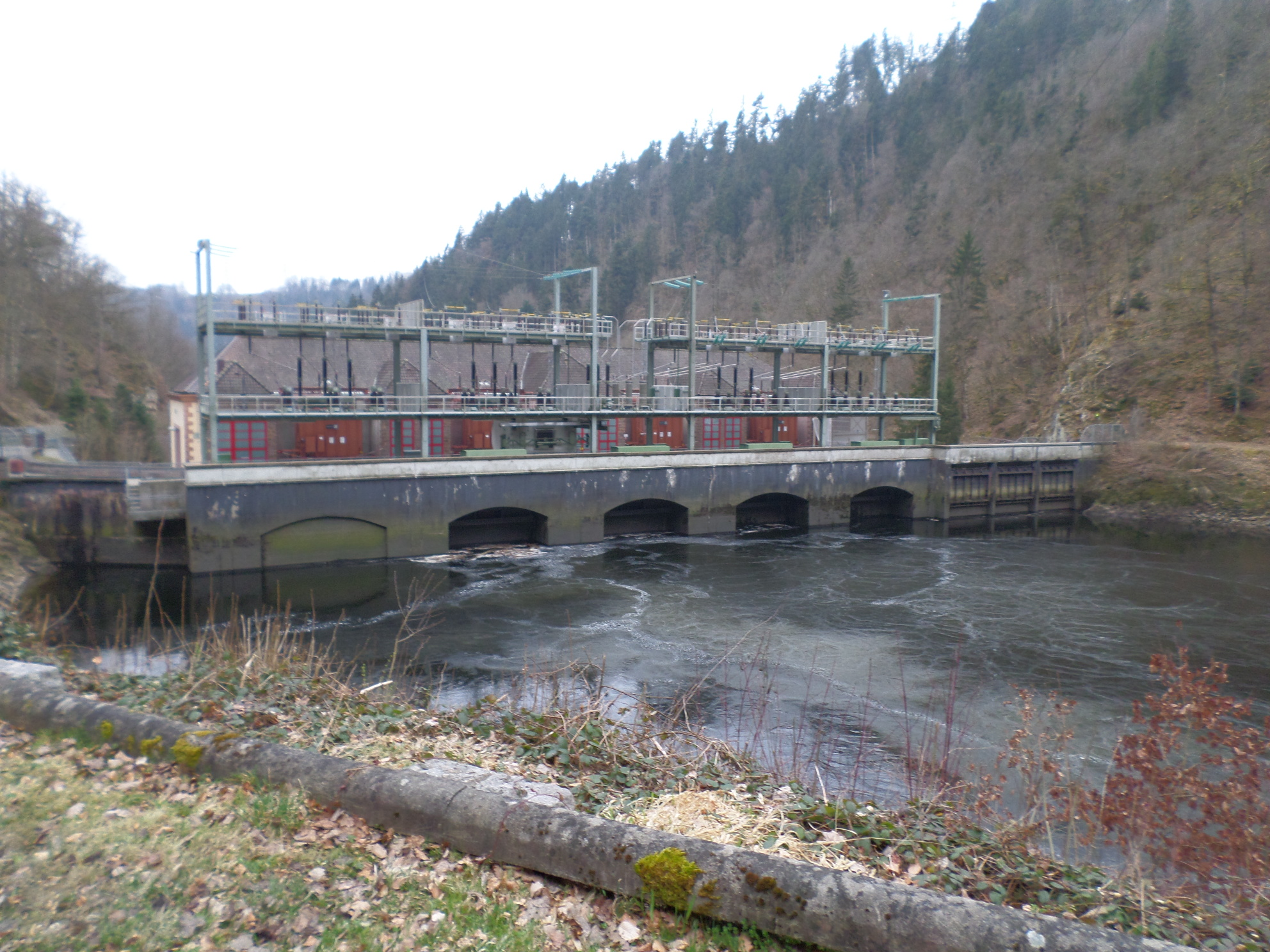 Witznau Pumped-Storage Hydroelectric Power Plant, Ühlingen-Birkendorf, Waldshut, Baden-Württemberg, Germany